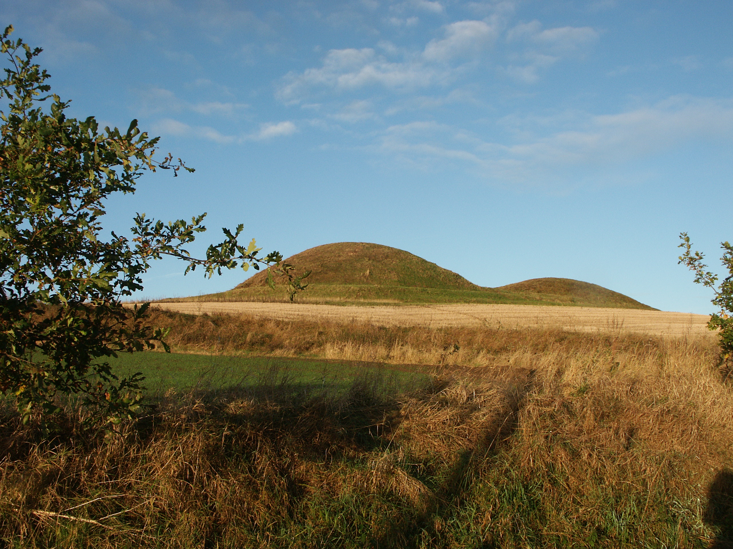 Gravemounds from the Bronze Age at Oxie, Malmö, Sweden.